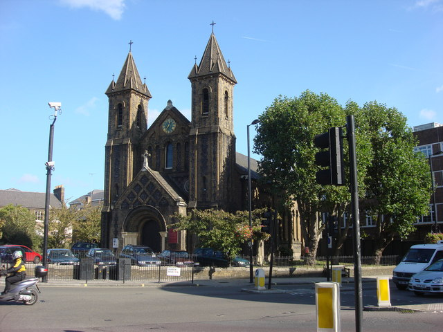 Parish church of St John the Evangelist, Kensal Green, London W10, at the junction of Harrow Road and Kilburn Lane, seen from the west